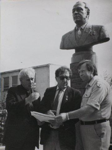 Установка бюста Гришину В.В. в г. Серпухов. Фото с авторами (первы слева - архитектор Хаджибаронов С.П., второй слева - скульптор Кербель Л.Е.)